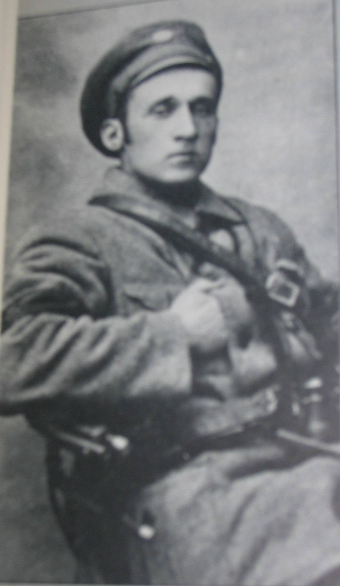 Finnish red guard leader and actor Jalmari Parikka